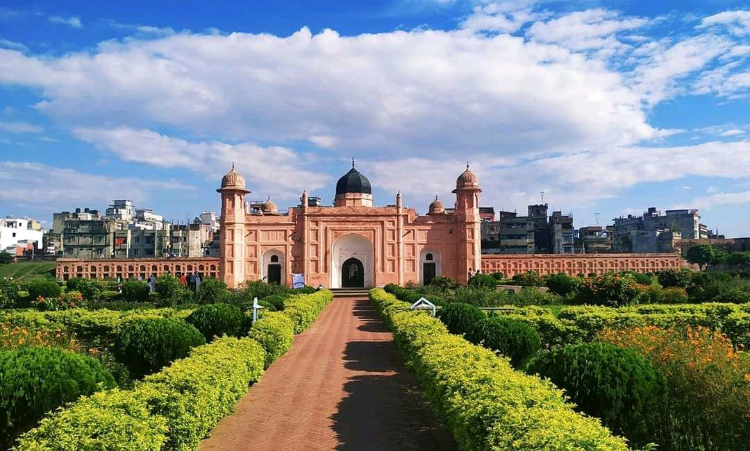 Lalbag Fort front view.